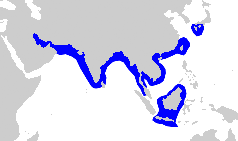 Distribution map for Carcharhinus dussumieri